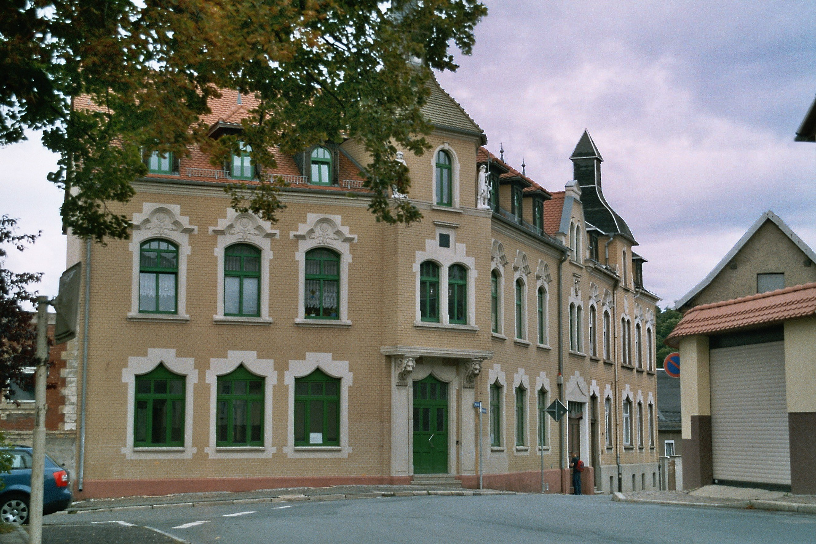 Osterfeld (Sachsen-Anhalt), view to the street "Rinnegasse"